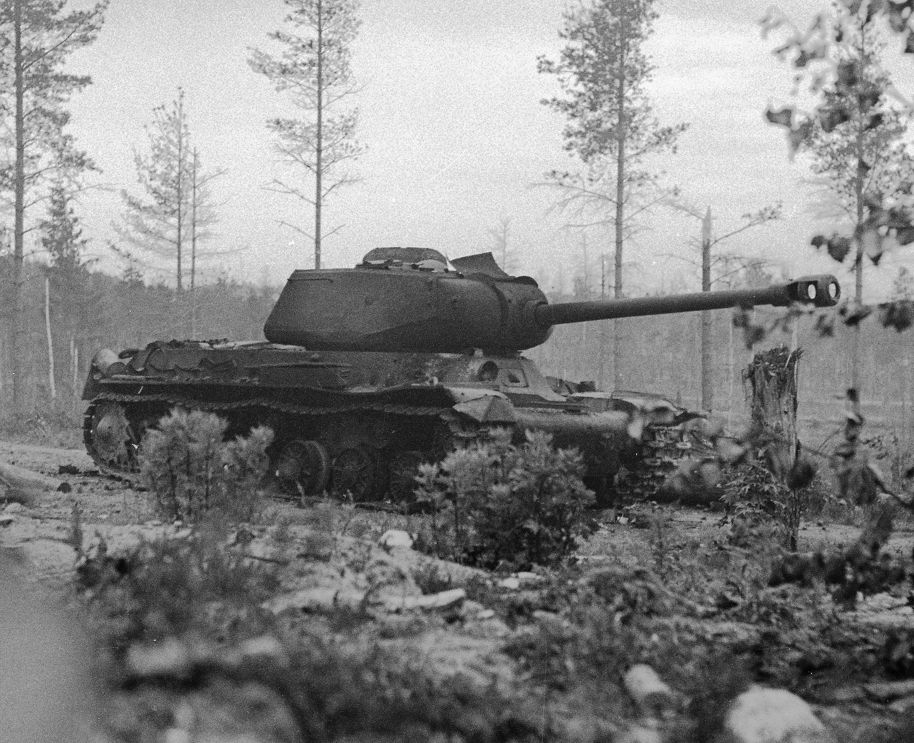 Continuation war - Destroyed IS-2 tank near Summa, Karelian Isthmus.